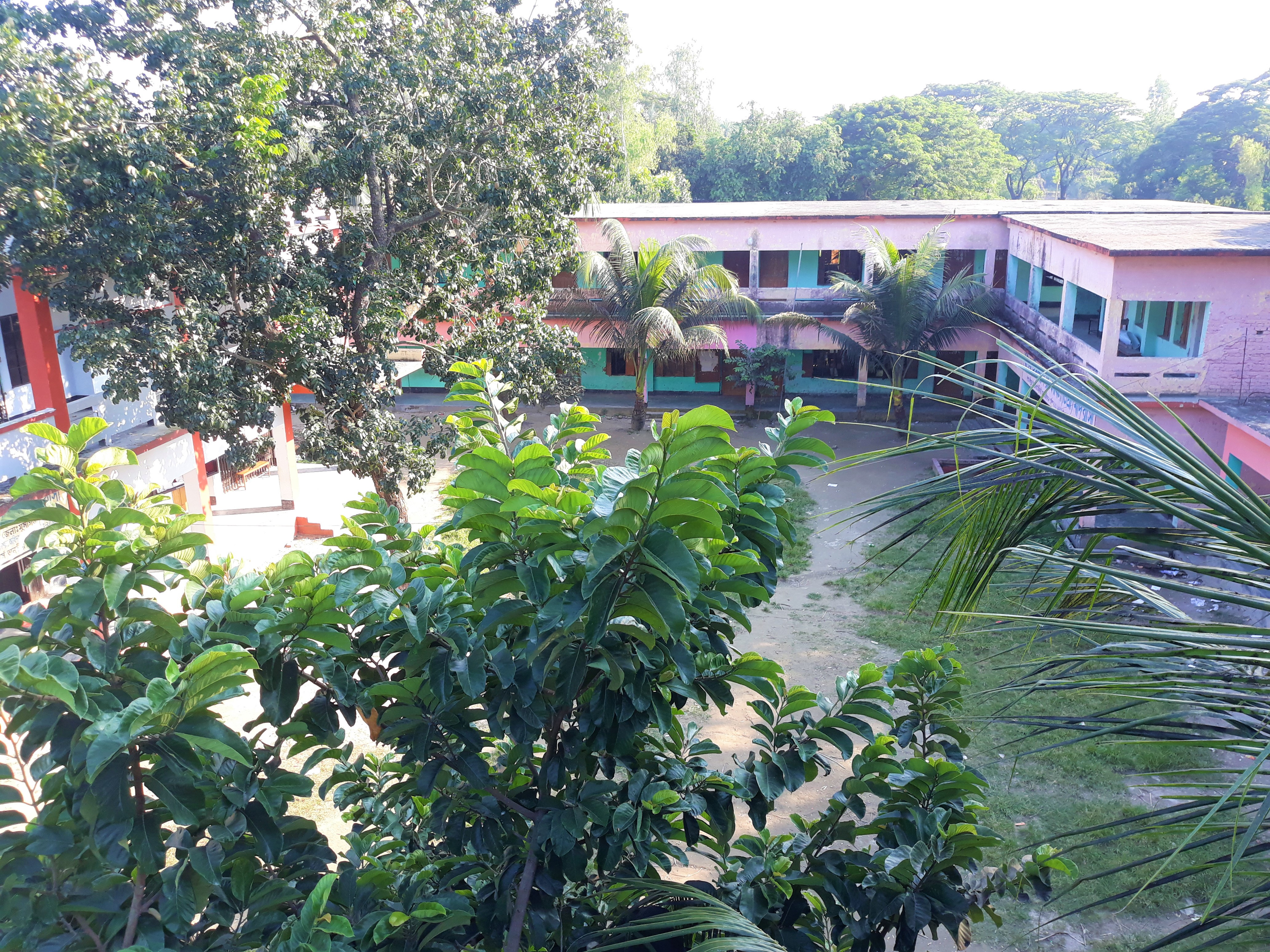 Dhipur Madrasah Islamia Fazil Madrasah, Tongibari, Munshiganj, Bangladesh.